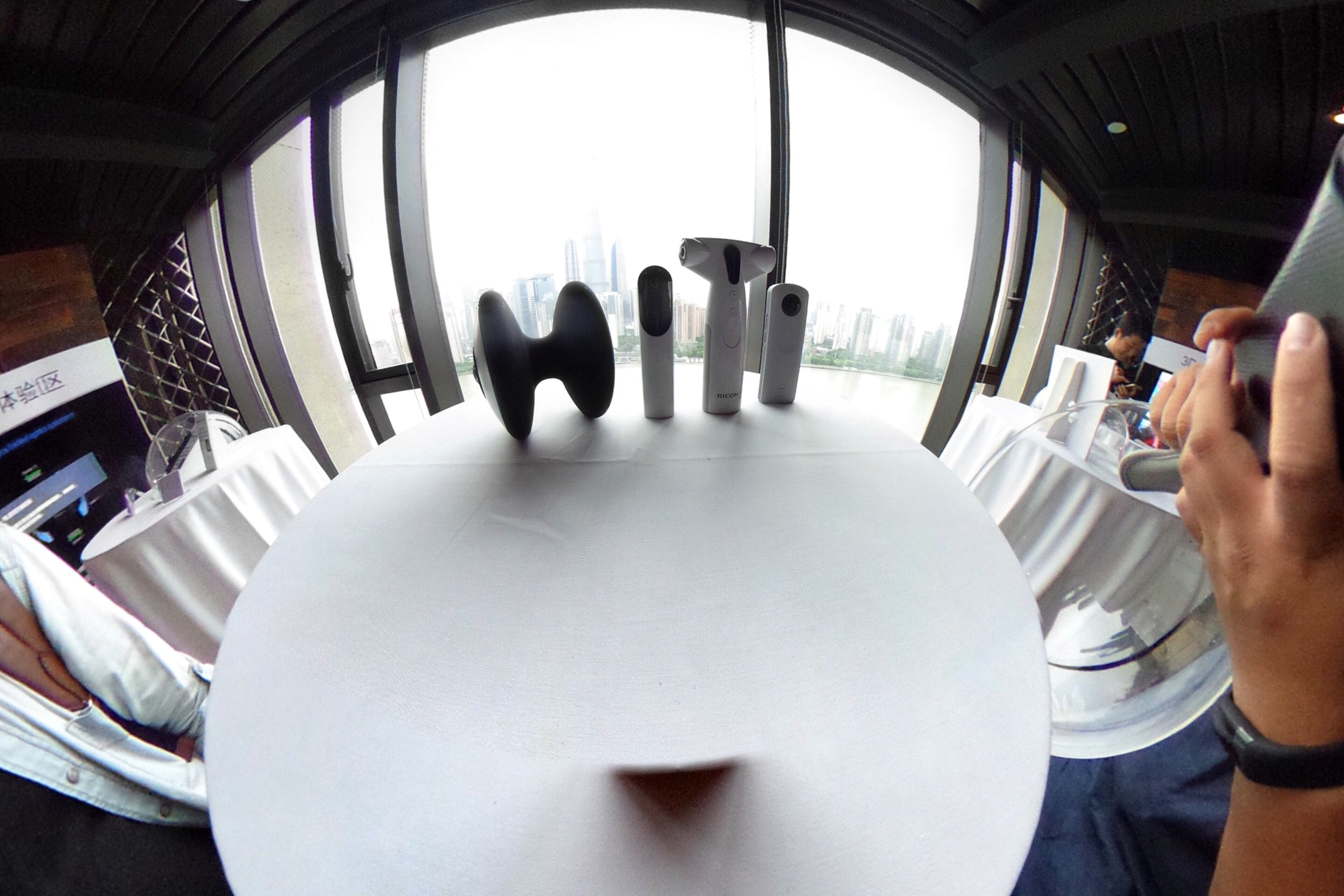 RICOH THETA's Prototype.